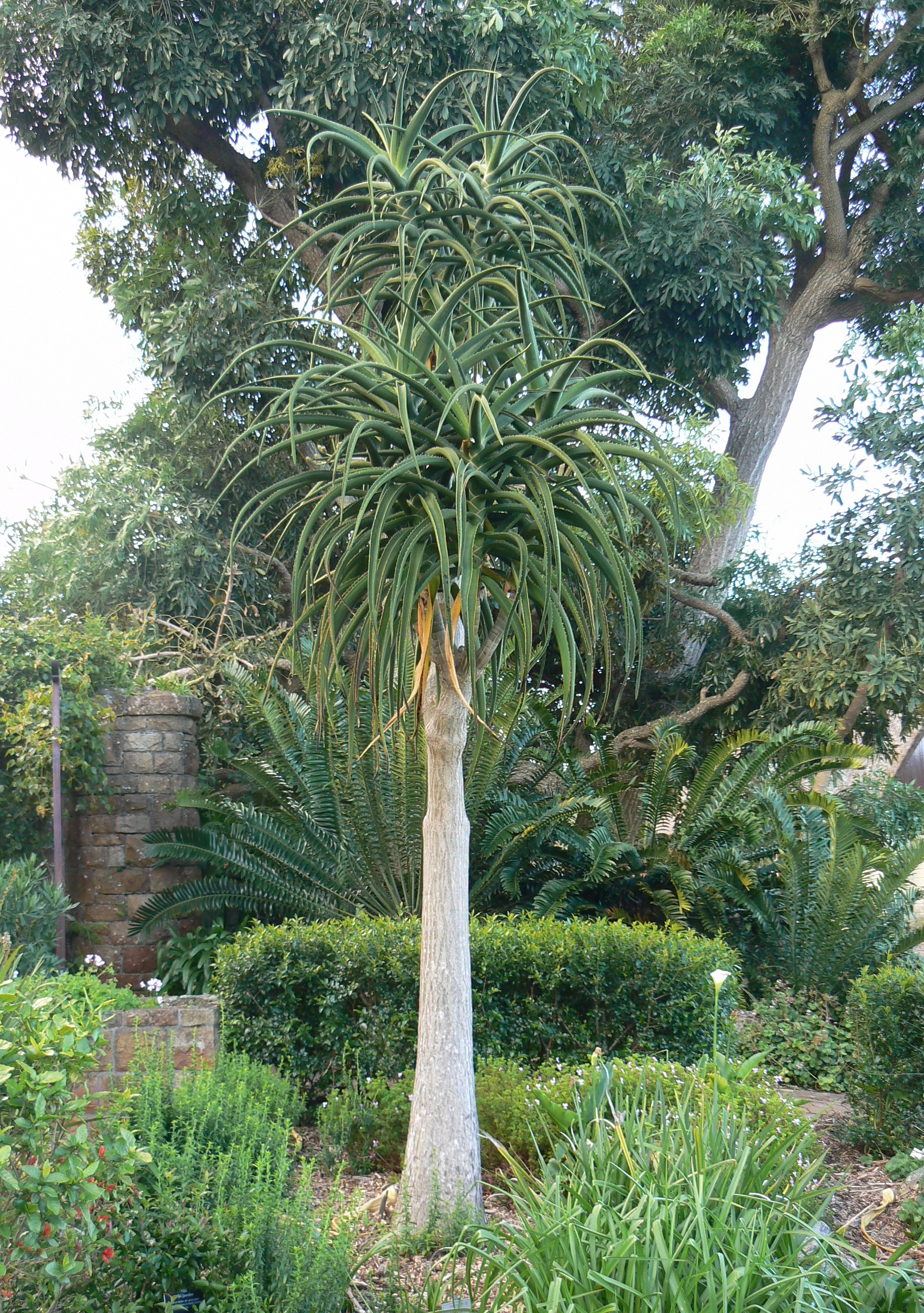 Personal photograph of a small Aloe barberae.